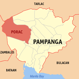 Map of Pampanga showing the location of Porac